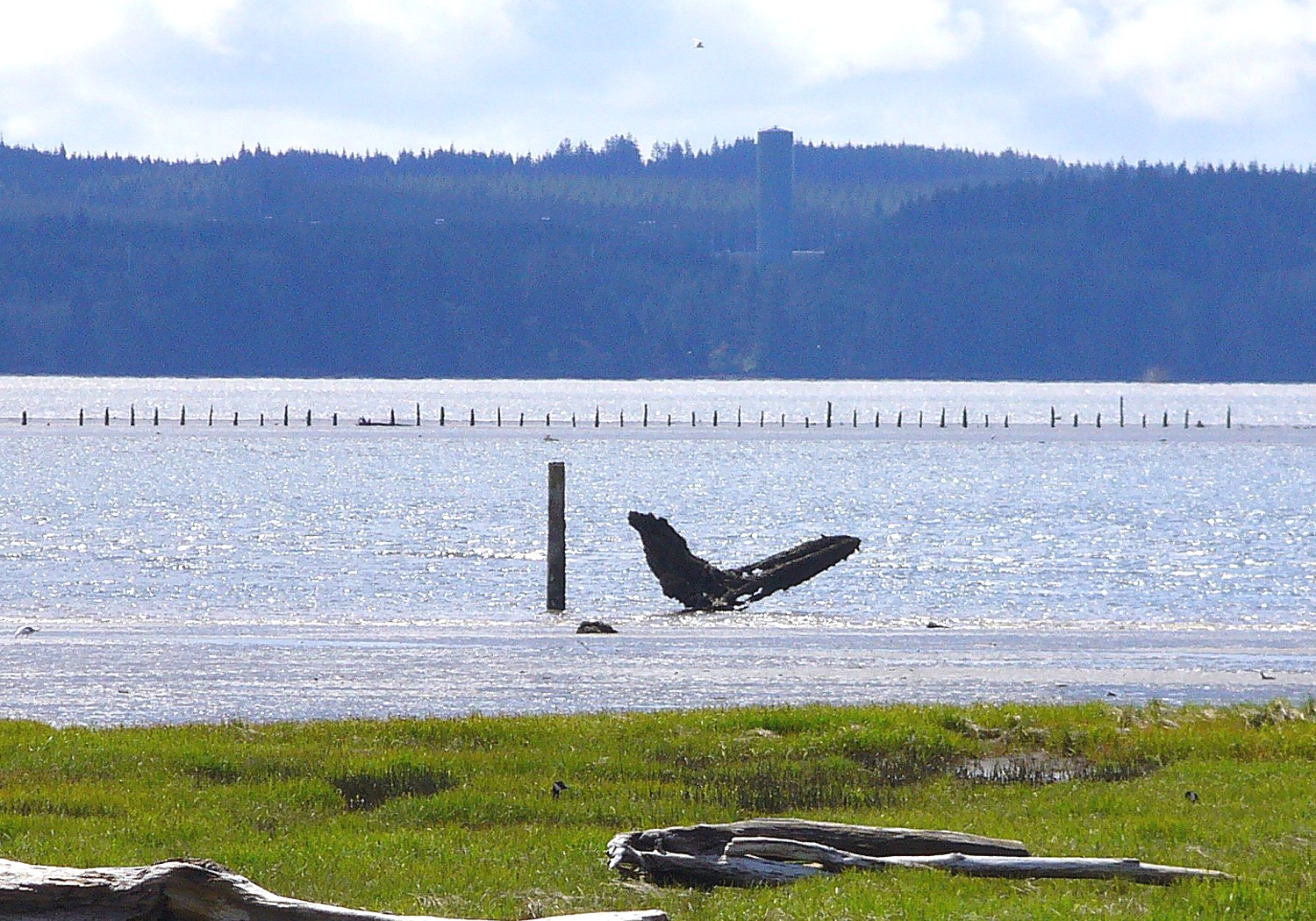 Grays Harbor with a whale near 5th Street in Hoquiam, leading to the airport.Whales tale redux